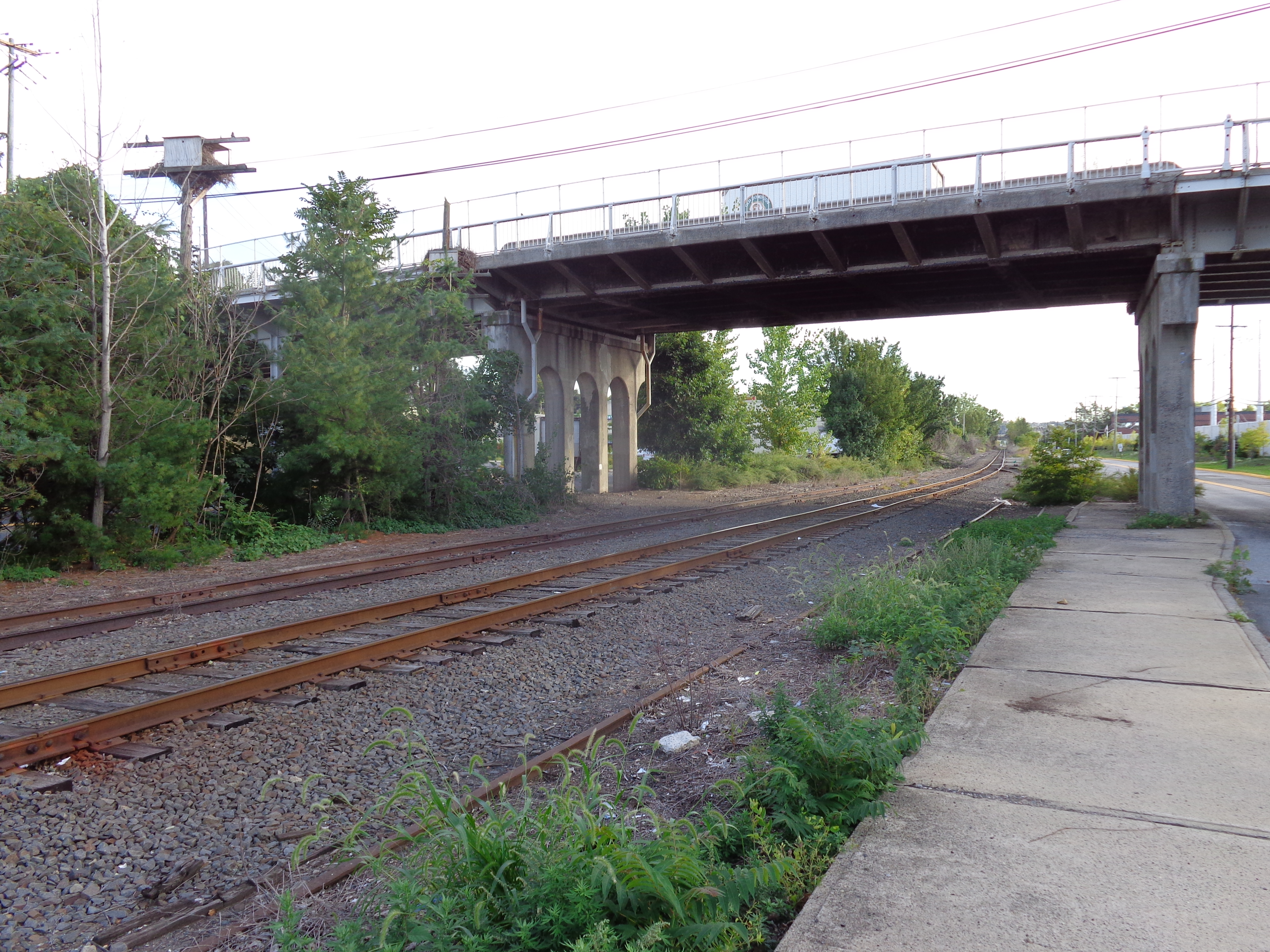 Northern Branch Ridgefield site of proposed Hudson Bergen Light Rail station at Hendricks Causeway